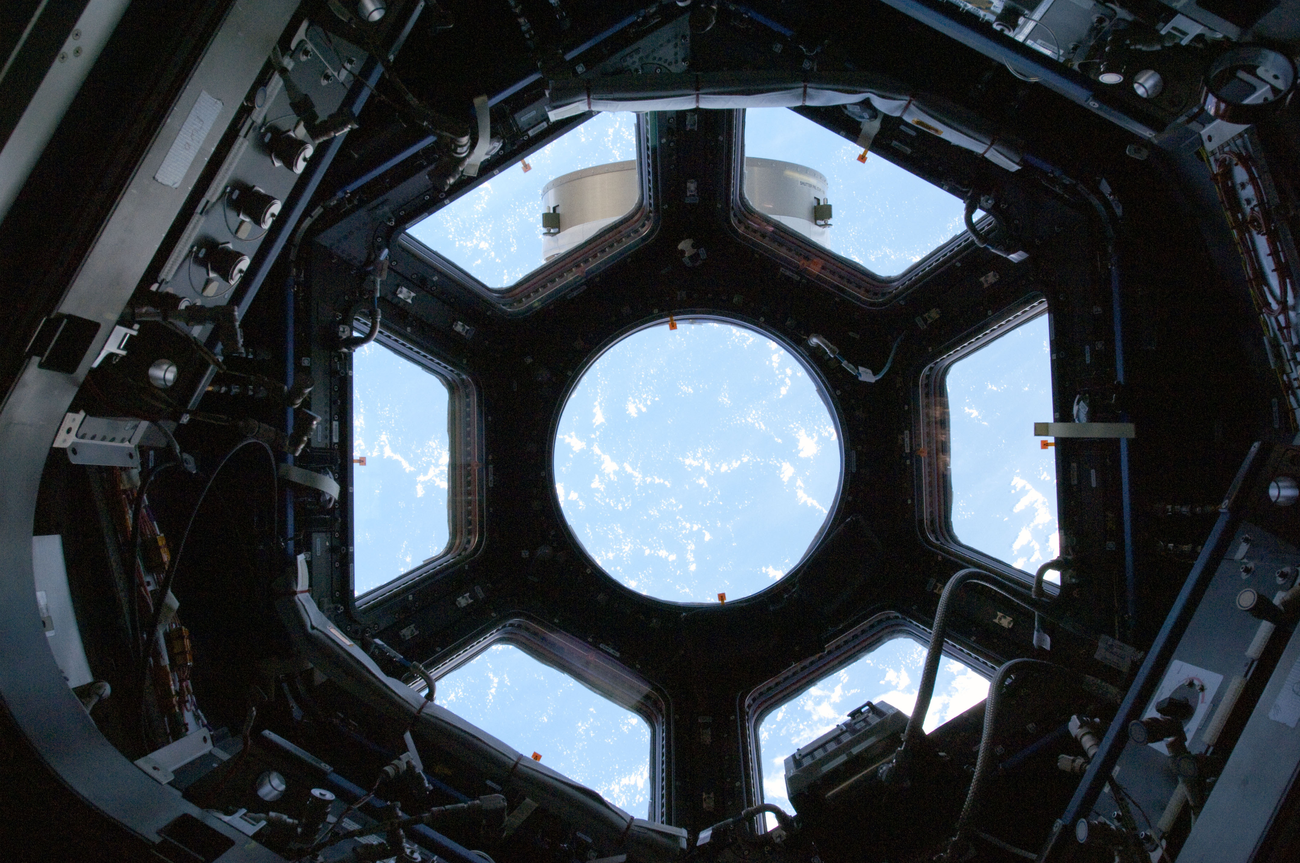 This image is among the initial series taken through a first of its kind "bay window" on the International Space Station, the seven-windowed Cupola. The image shows small clouds over a light blue background. The image was recorded with a digital still camera using a 19mm lens setting. The Cupola, which a week and half ago was brought up to the orbital outpost by the STS-130 crew on the space shuttle Endeavour, will house controls for the station robotics and will be a location where crew members can operate the robotic arms and monitor other exterior activities.